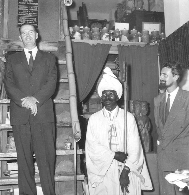 Governor General of Jamaica Hugh Foot addressing attendees at a one man show art exhibition at Hills Galleries in Kingston showing works by Mallica "Kapo" Reynolds (center) with gallery owner Christopher Hills (right)